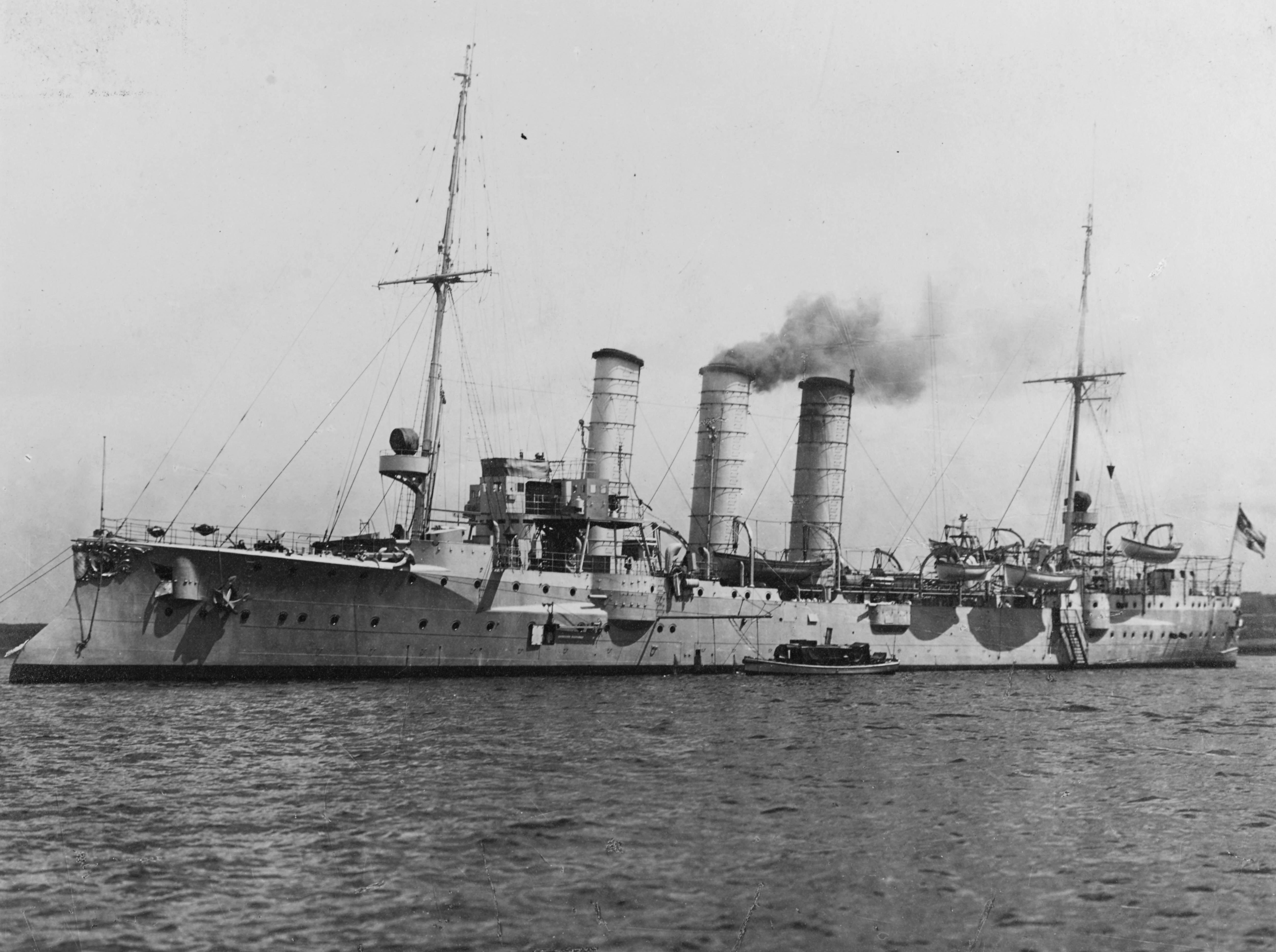 MÜNCHEN (German light cruiser, 1904-1920) Caption: Photographed before World War I.